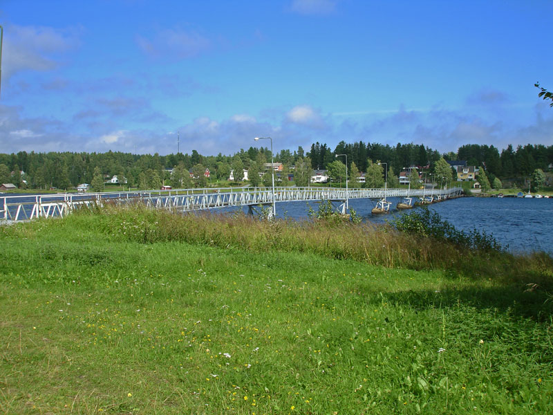 The outlet of river Gideälven in northern Sweden with the pedestrian bridge between Dombäcksön (on the other side) and Gideåbacka wharf.